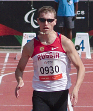 Russian Paralympic T13 sprinter Alexander Zverev competing in the heats of the T13 400m sprint at the 2013 IPC Athletics World Championship in Lyon.